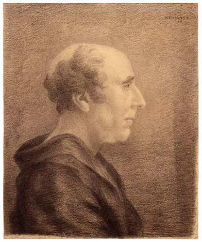 Dugald Stewart (November 22, 1753 - June 11, 1828), Scottish philosopher, was born in Edinburgh. His father, Matthew Stewart (1715–1785), was professor of mathematics in the University of Edinburgh (1747–1772).